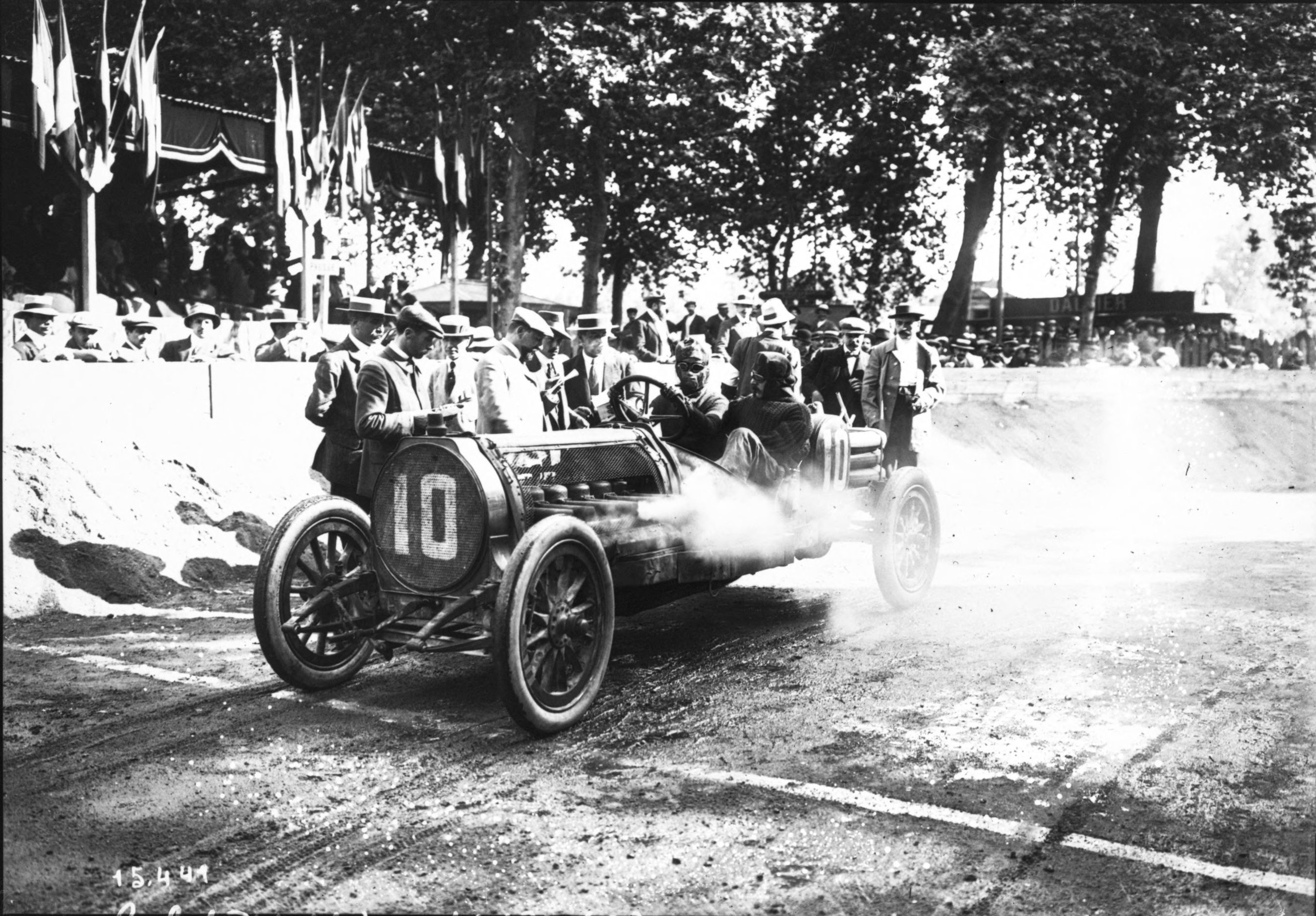 Anthony at the 1911 Grand Prix de France at Le Mans.